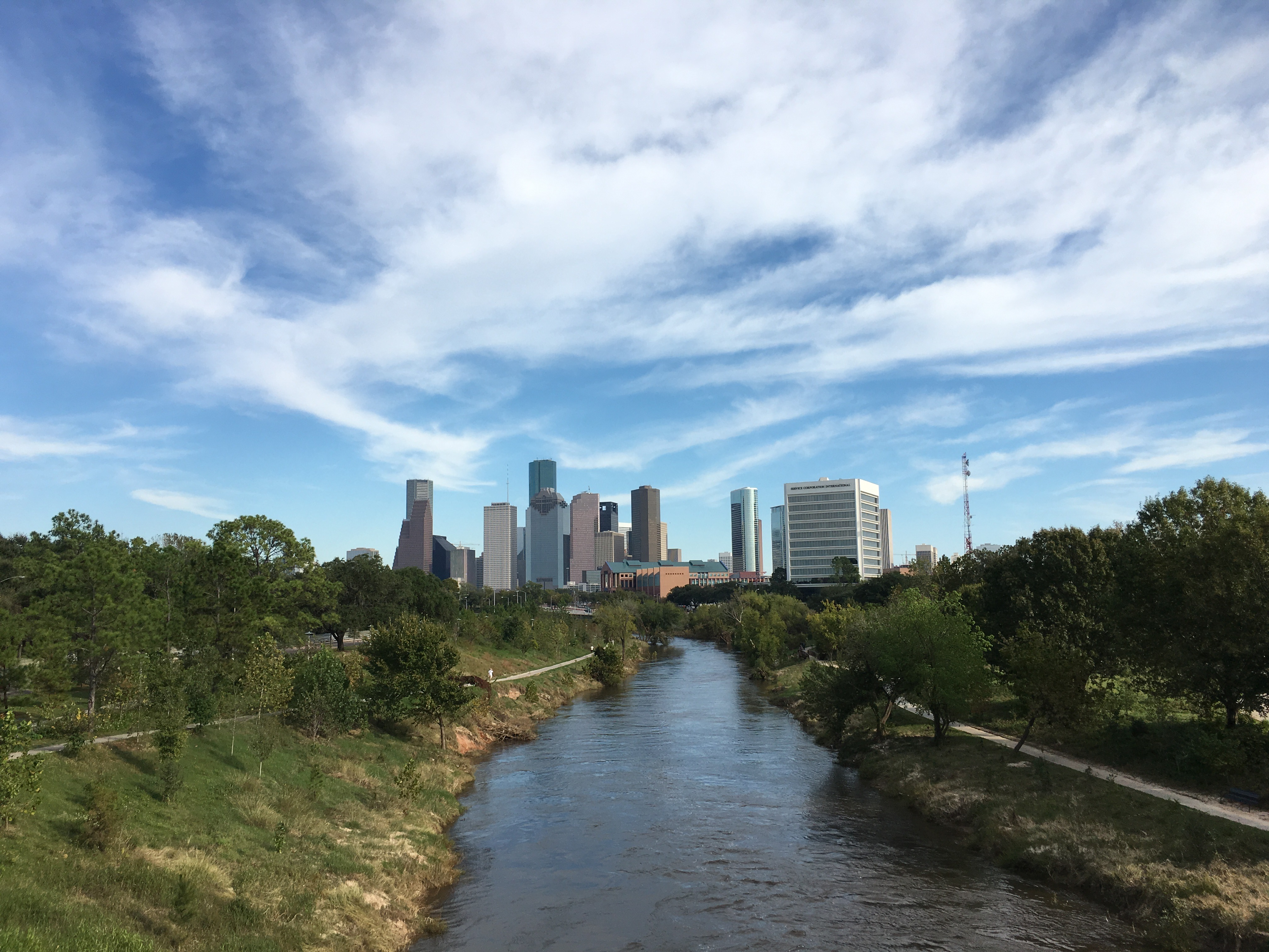 View of Downtown Houston from Rosemont Bridge (near Montrose Boulevard) in Buffalo Bayou Park.